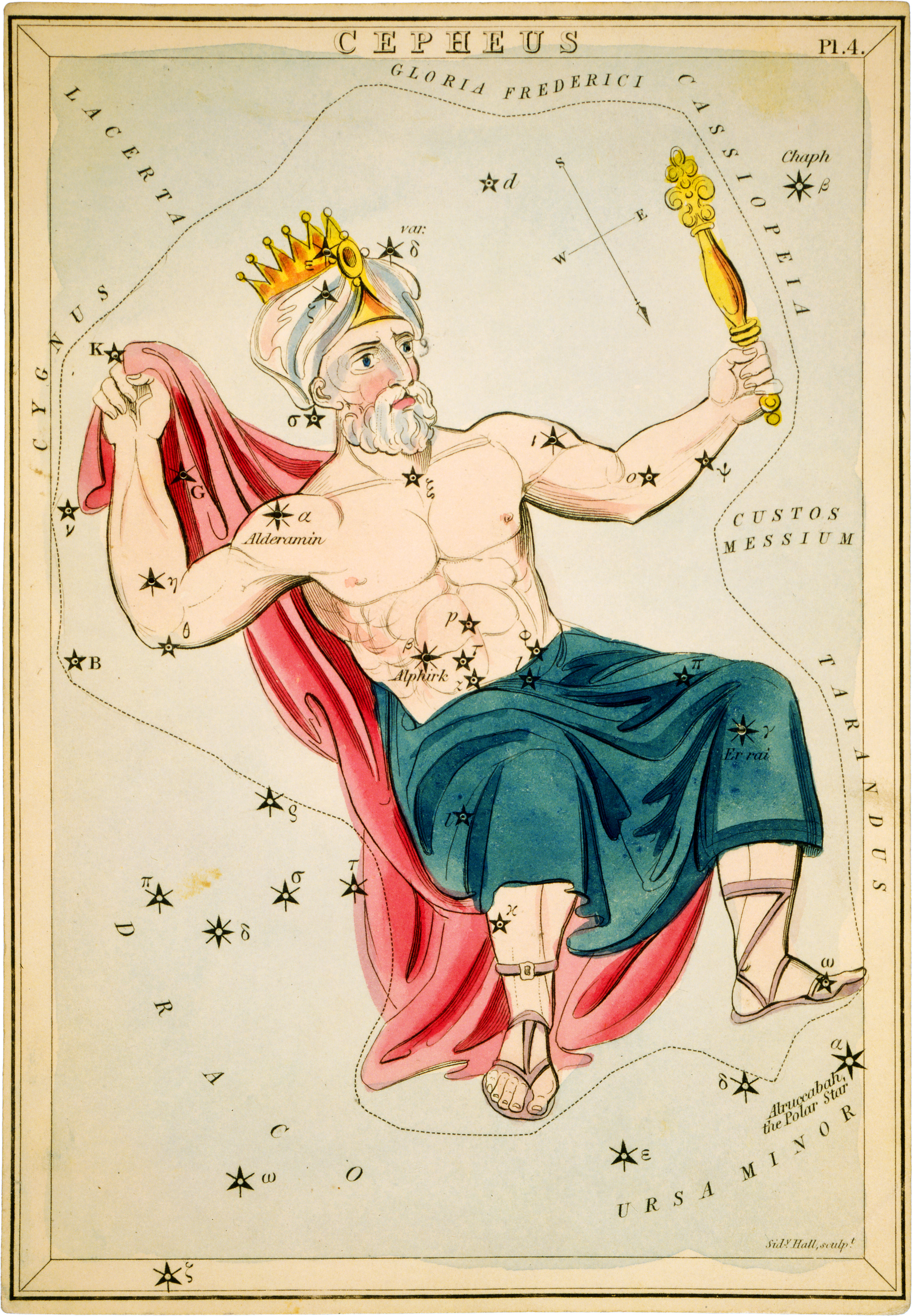 "Cepheus", plate 4 in Urania's Mirror, a set of celestial cards accompanied by A familiar treatise on astronomy ... by Jehoshaphat Aspin. London. Astronomical chart showing a man in seated posture forming the constellation. 1 print on layered paper board : etching, hand-colored.